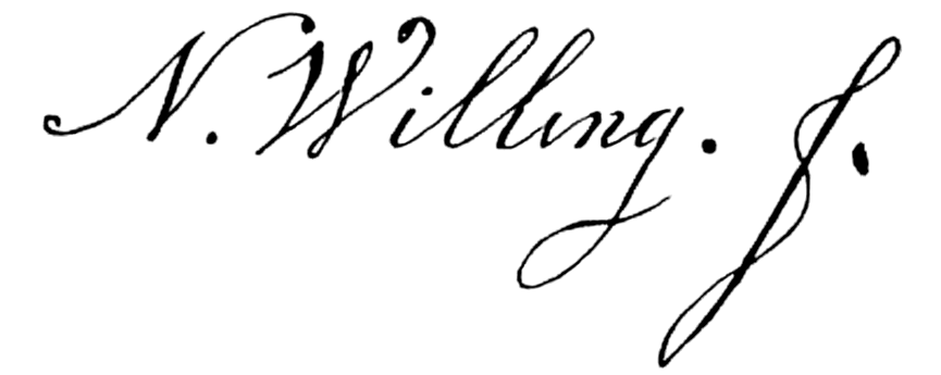 Signature of the Dutch Golden Age painter Nicolaes Willingh (The Hague, 1640 - Berlin, 1678) He is also known as: Nicolaes WeelingNicolaas WielinckNicolaes WielingNicolas WielinghNicolaes WielingsNicolaes WillingNicolaes Willings